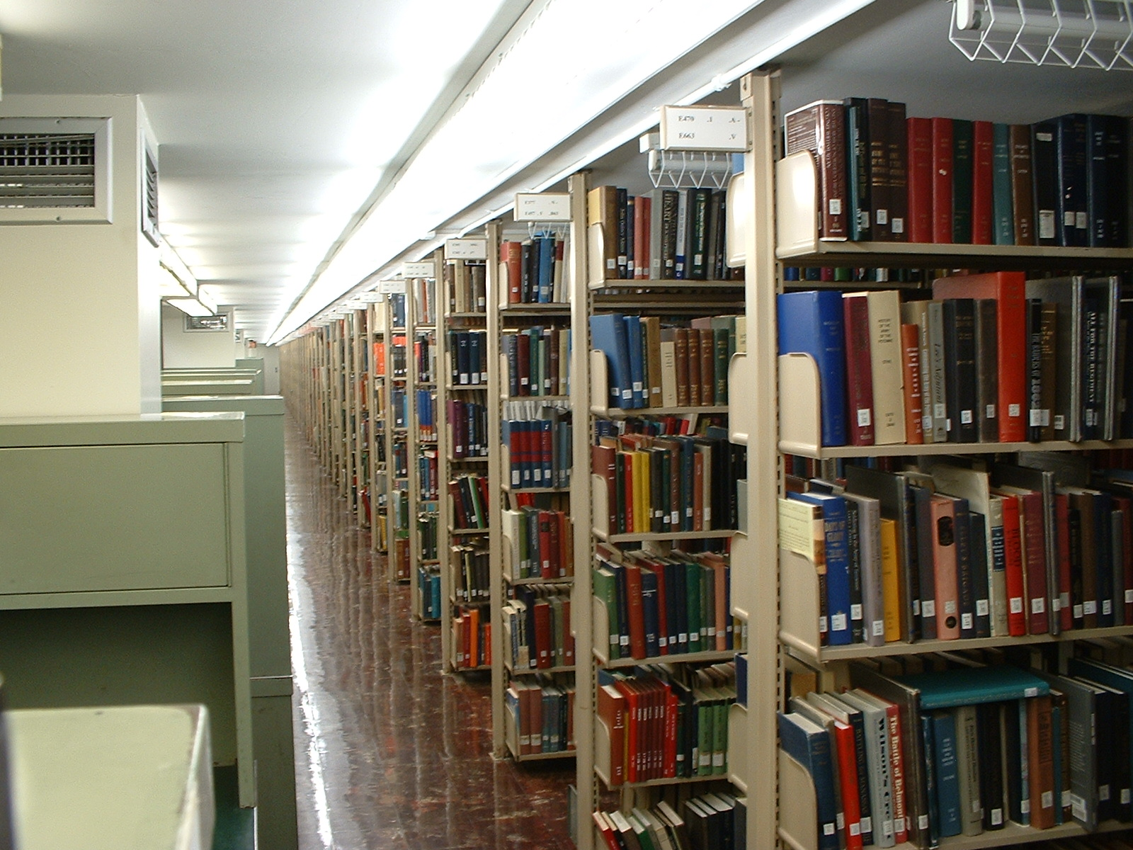 Picture of a book aisle in Pattee Library, located at Penn State in University Park, Pennsylvania.